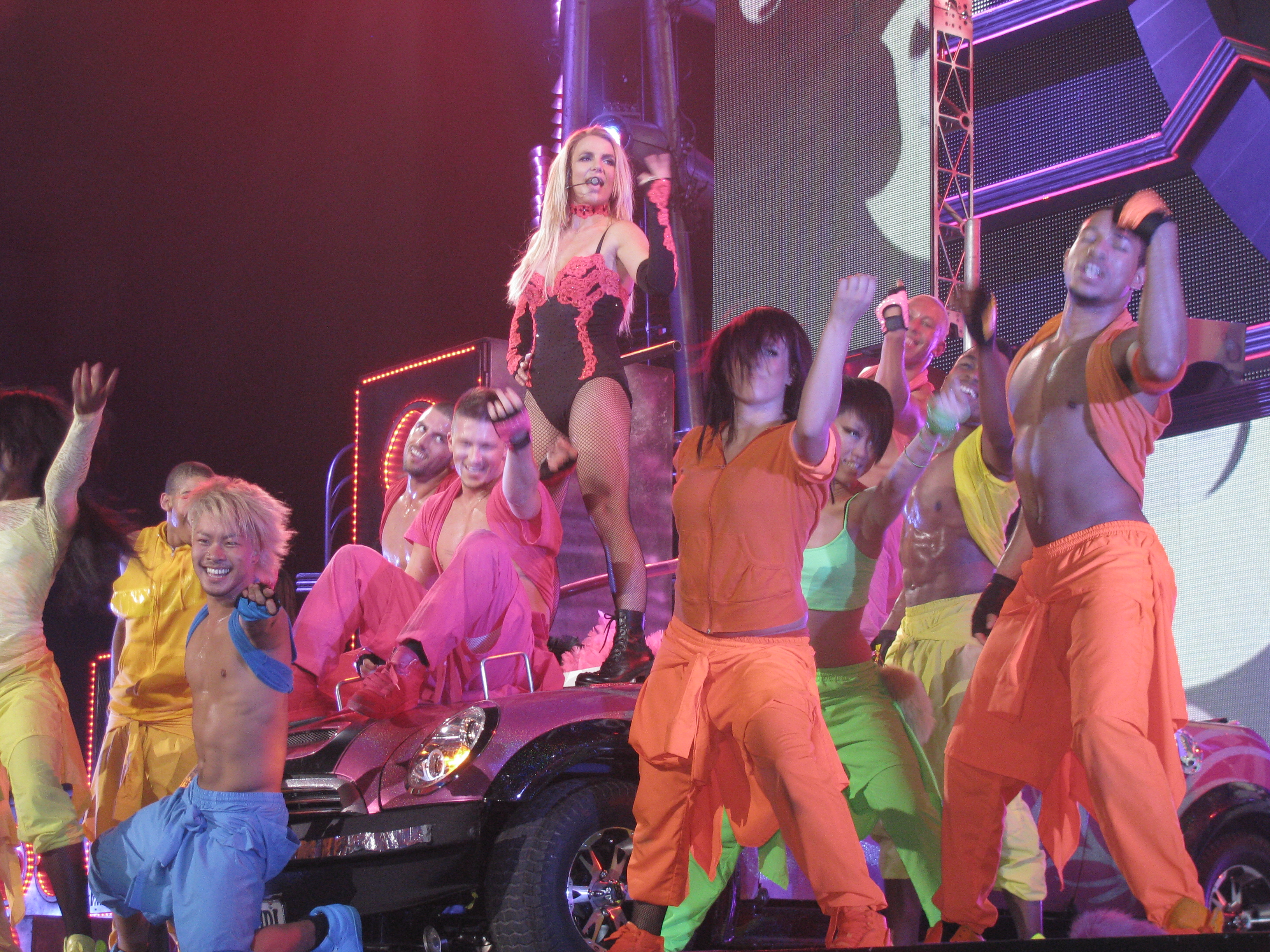 Spears performing "How I Roll" at the Femme Fatale Tour.